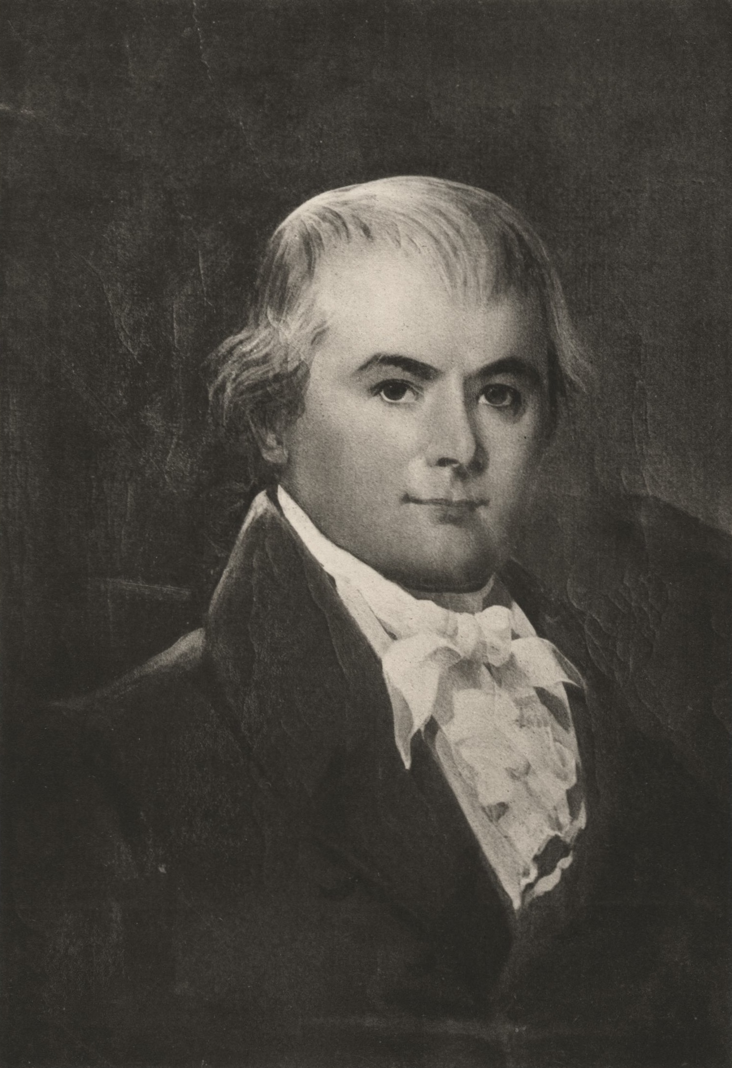 William Montgomery- One of Danville, Pennsylvania's founders.